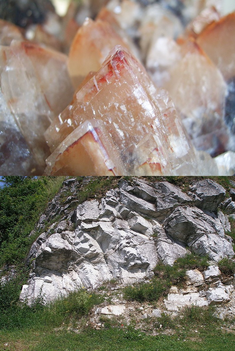 Calcite Limestone